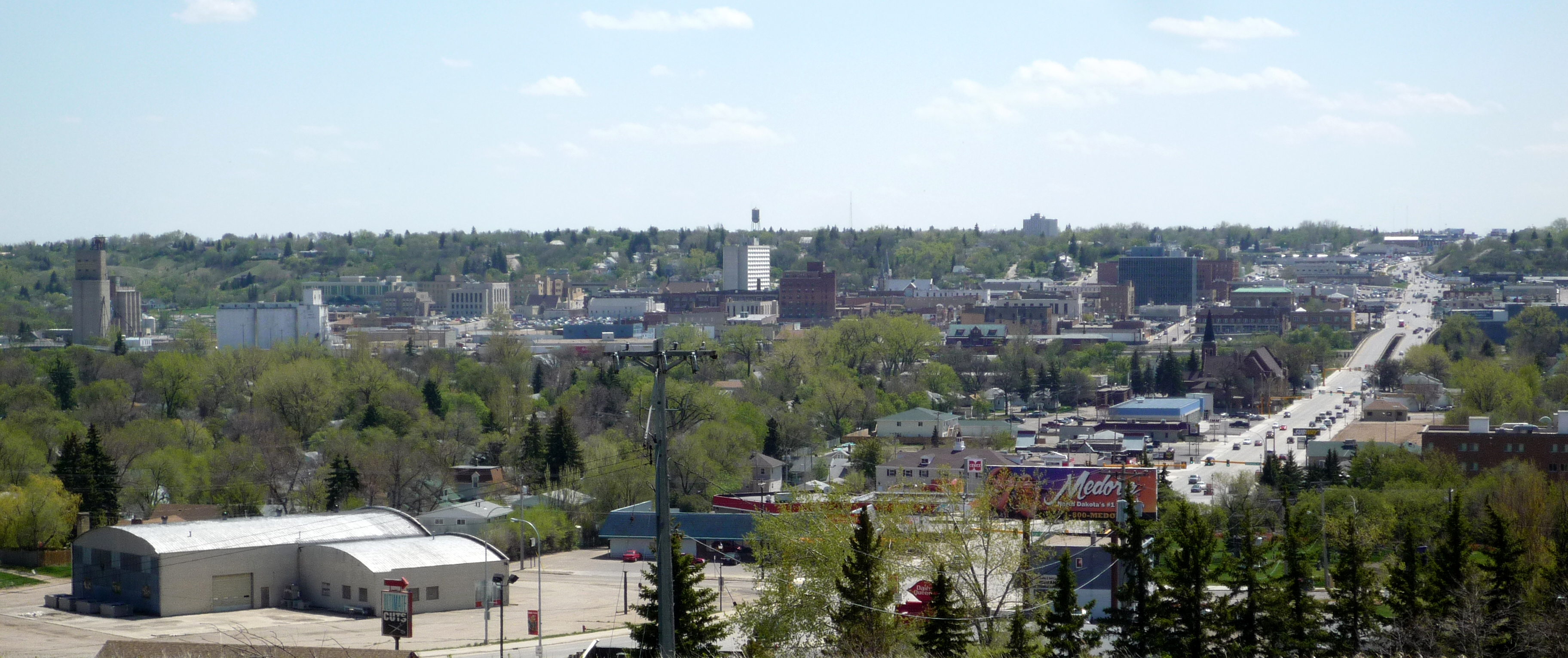 View of downtown Minot, North Dakota, USA from the hill below the Grand International Inn.